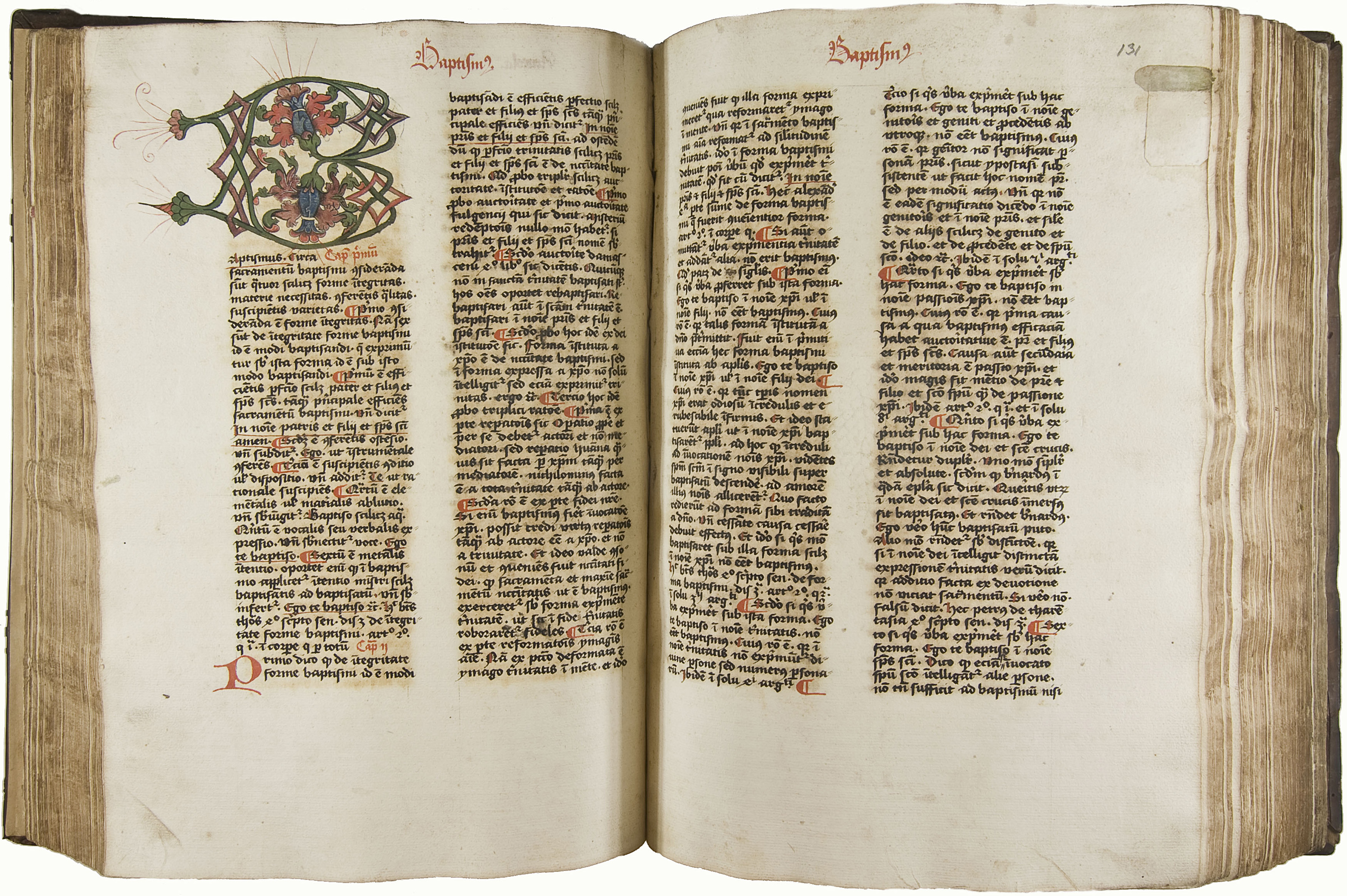 Two pages of Giordano da Pisa's Pantheologia (Vol. I), written in the early 14th c. This manuscript with 2 prologues, one by Jacob Florentine, was produced in 1470 in the Monastery of the Crutched Friars ('Kruisherenklooster') in Maastricht, the Netherlands. Now in the collection of the University Libarary of Groningen (ms. 18).